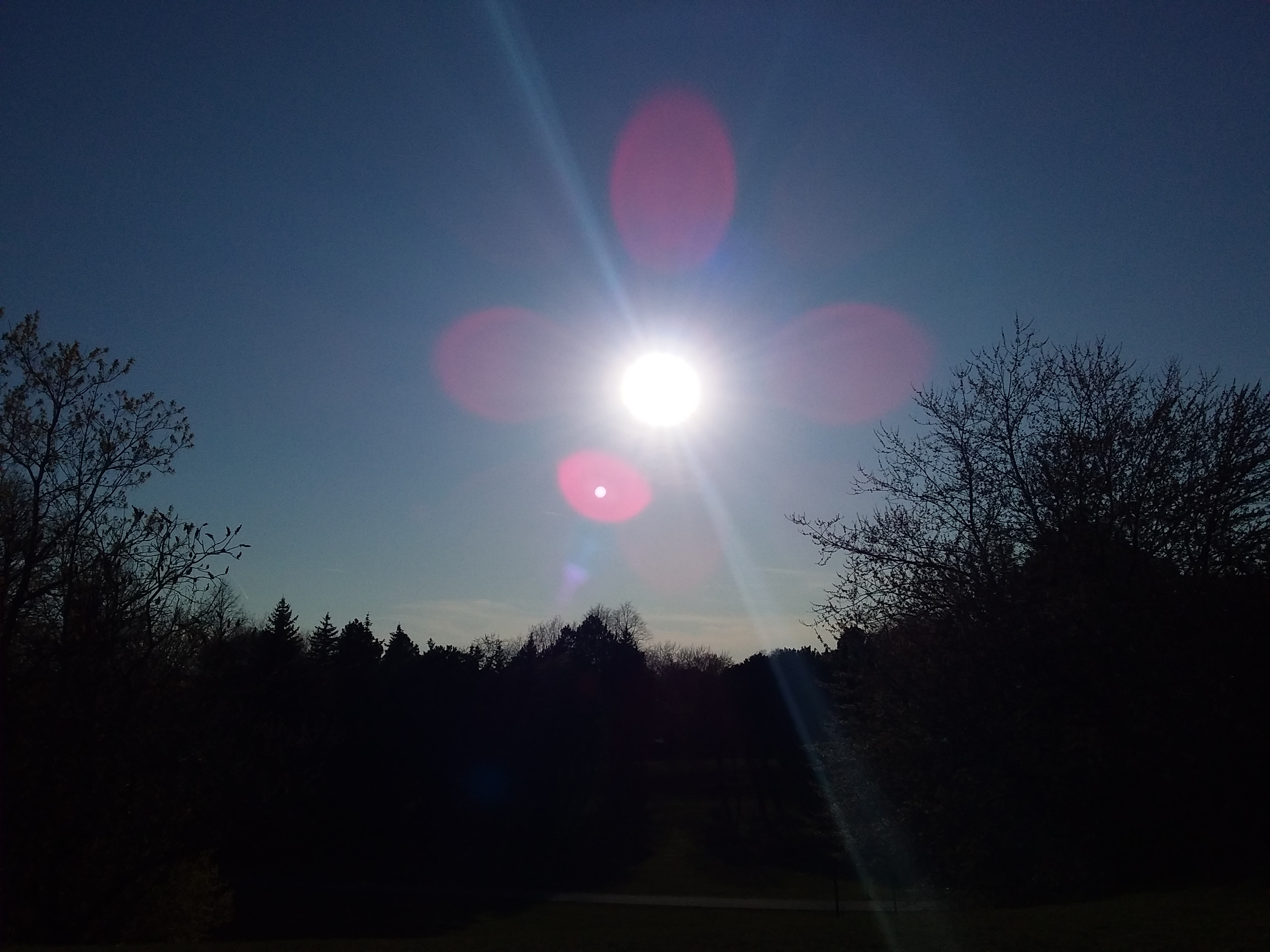 Lens flare on an image, taken with a phone camera. The not-too-small, not-too-large aperture of the phone camera results in both circles and streaks.